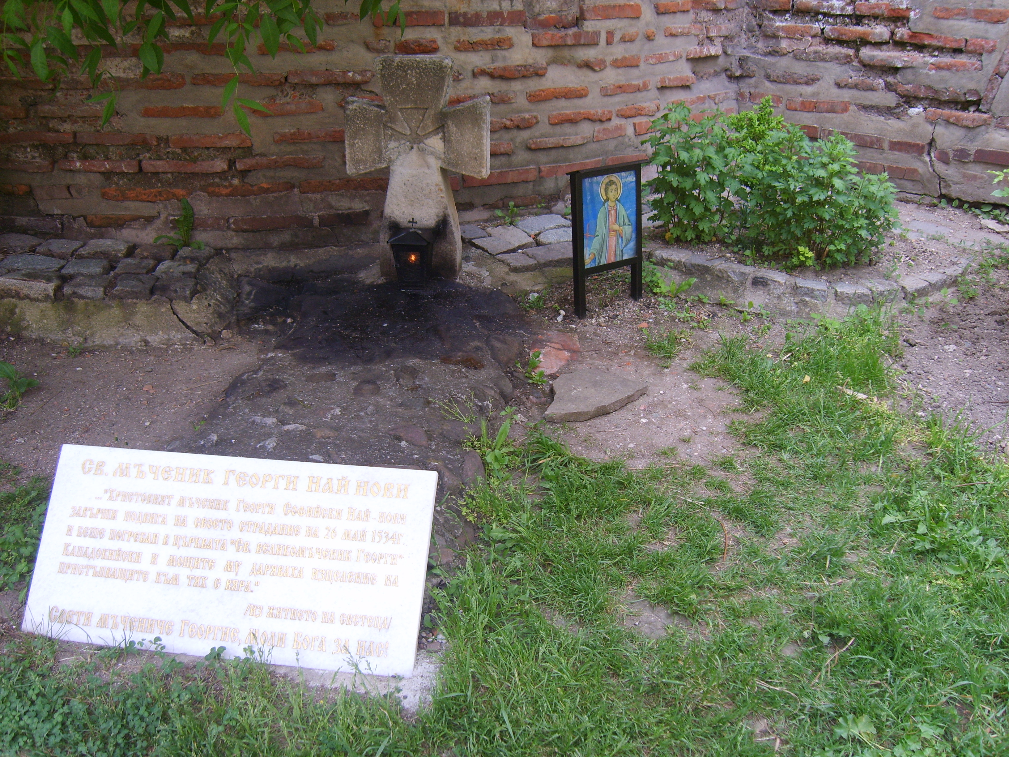 Rotonda "Saint George" church - detail from eastern side